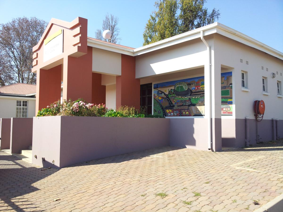 These are photos in Orlando in Johannesburg taken for the Joburgpedia project. Orlando East Library